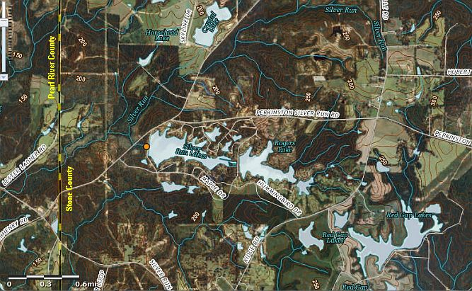 Aerial view of Silver Run community located in Stone County, Mississippi, USA.